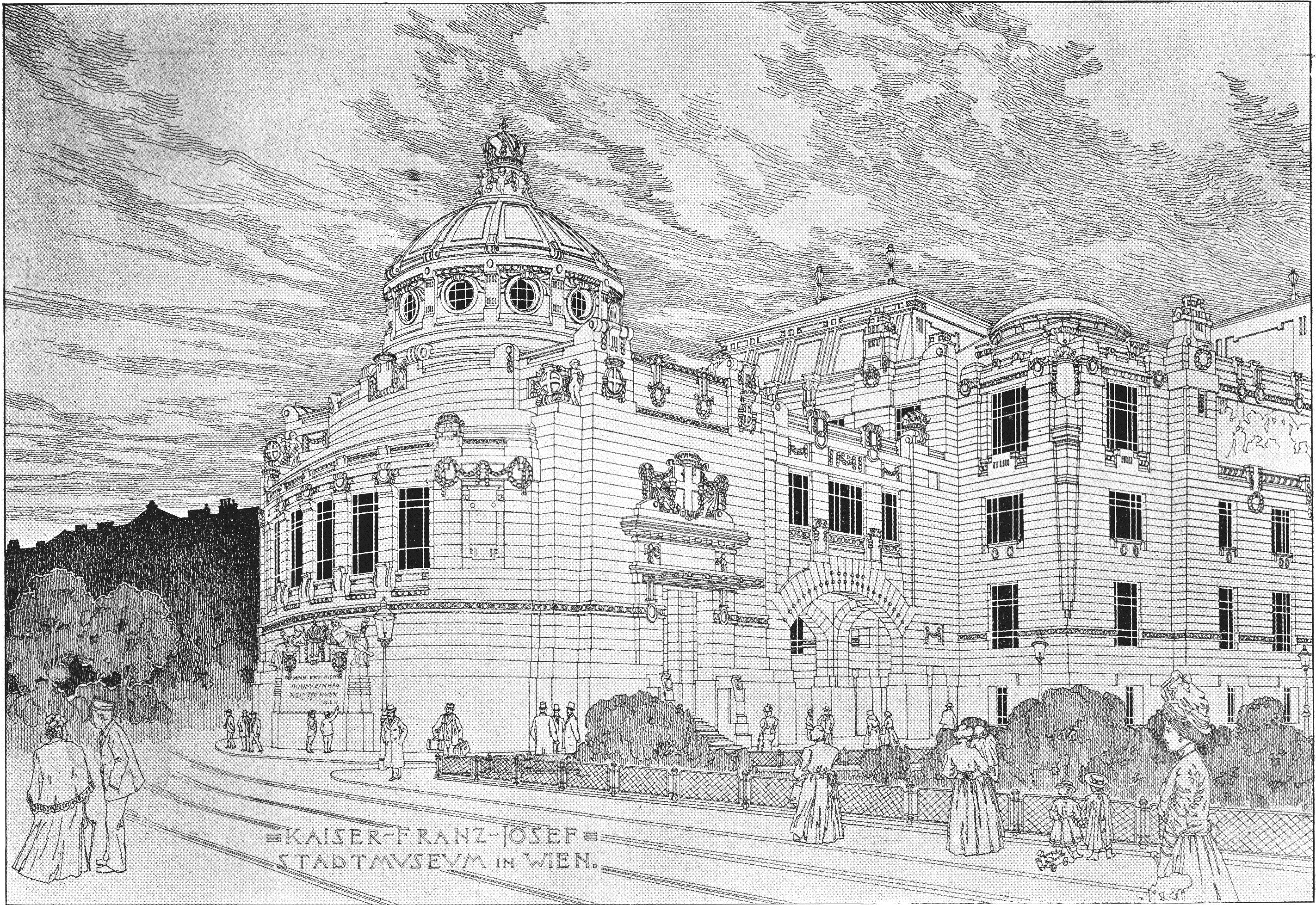 Project for Vienna's Kaiser Franz Joseph City Museum in Karlsplatz, by Architect Prof. Max Hegele (1873‒1945). Drawn around 1901. Printed in the 1912 issue of Wiener Bauindustrie-Zeitung, magazine for architects, engineers, builders, etc. from an original drawing by Max Hegele